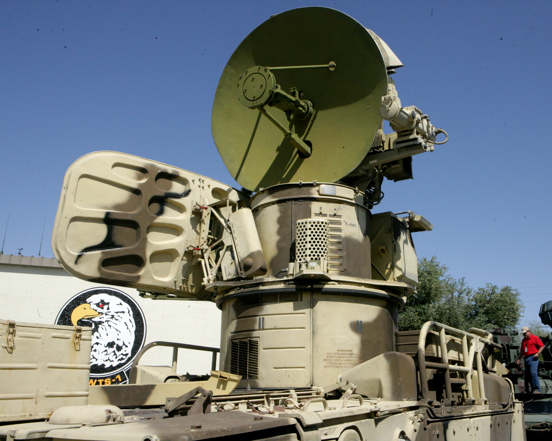 A former Soviet ZRK-SD Kub Straight Flush radar system sits parked at Marine Corps Air Station Yuma, Ariz., April 3, 2010. Naval Surface Warfare Center, Corona Division employees brought equipment to show U.S. Marines and other Service members attending Weapons and Tactics Instructor Course 2-10, hosted by Marine Aviation Weapons and Tactics Squadron (MAWTS) 1.